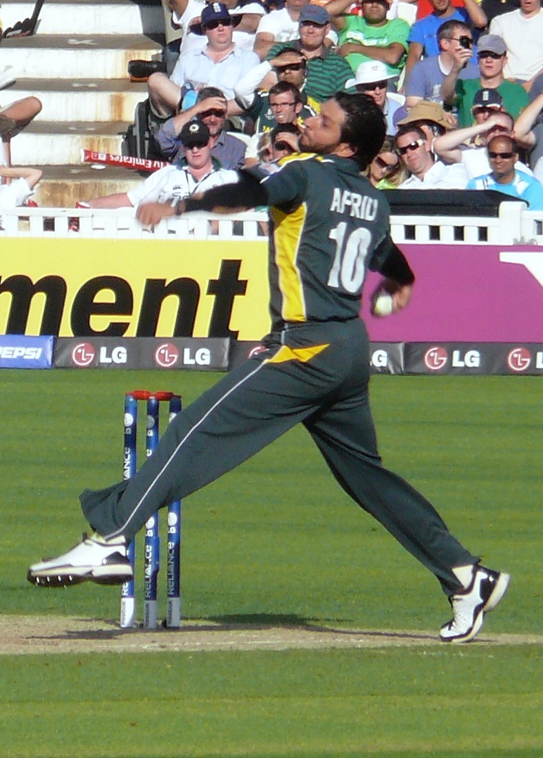 Shahid Afridi bowling in World Twenty20 Super8 Match; NZ v PK at The Oval, 13 June, 2009.